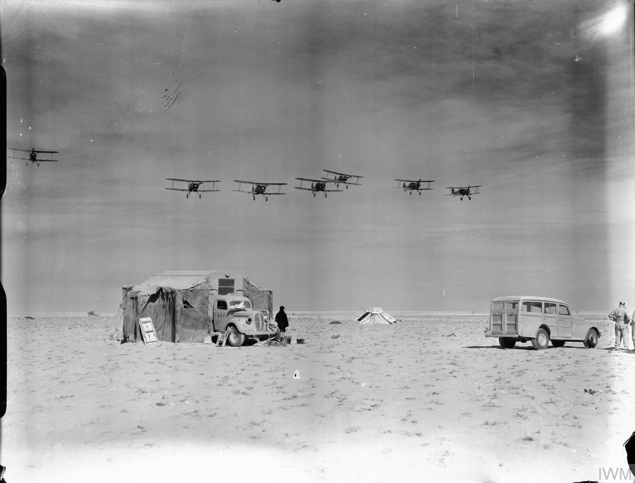 Royal Air Force Operations in the Middle East and North Africa, 1939-1943. Seven Gloster Gladiators of No. 3 Squadron RAAF make a low pass in loose line abreast formation over the Squadron's mobile operations room at their landing ground near Sollum, Egypt, from which they operated during Operation COMPASS.